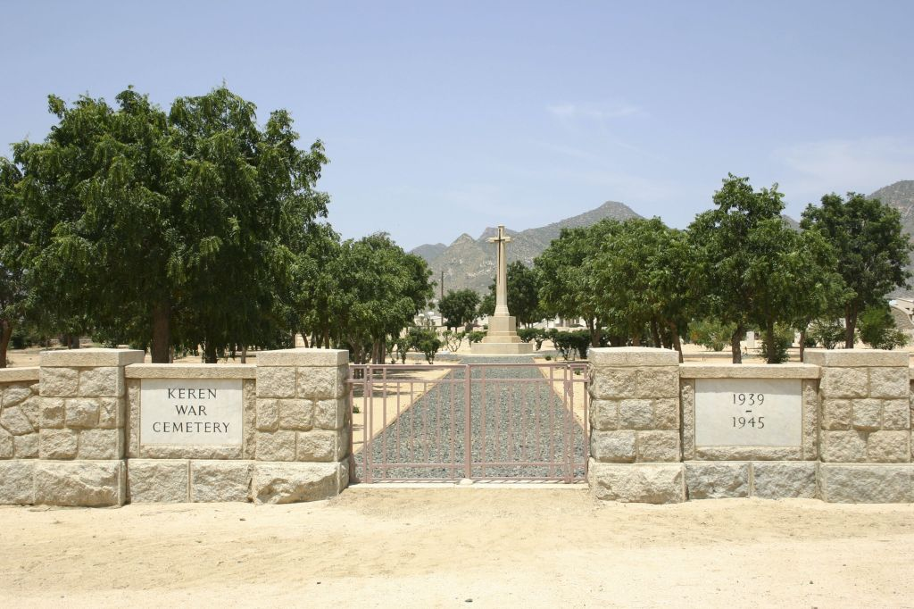 Battle of Keren Battlefield - Military Cemetery